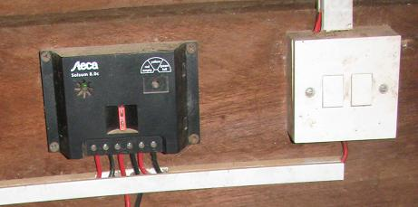 Solar controller Steca Solsum 8.0c and 12V light switch